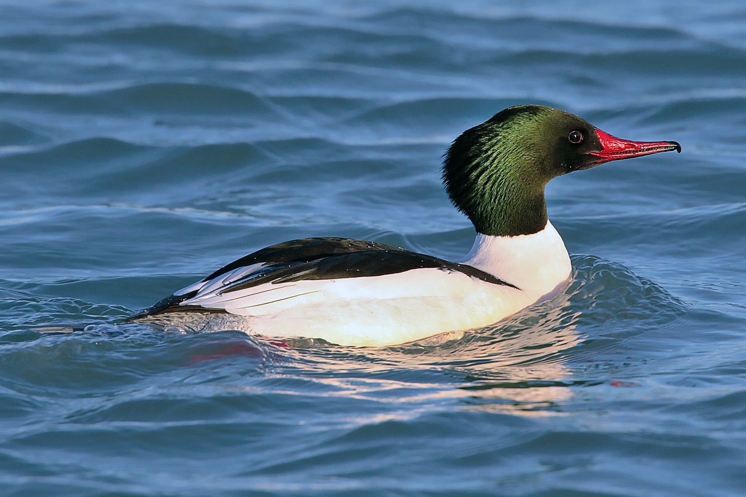 Common Merganser (male) -- Cobourg, Ontario, Canada -- 2007 February